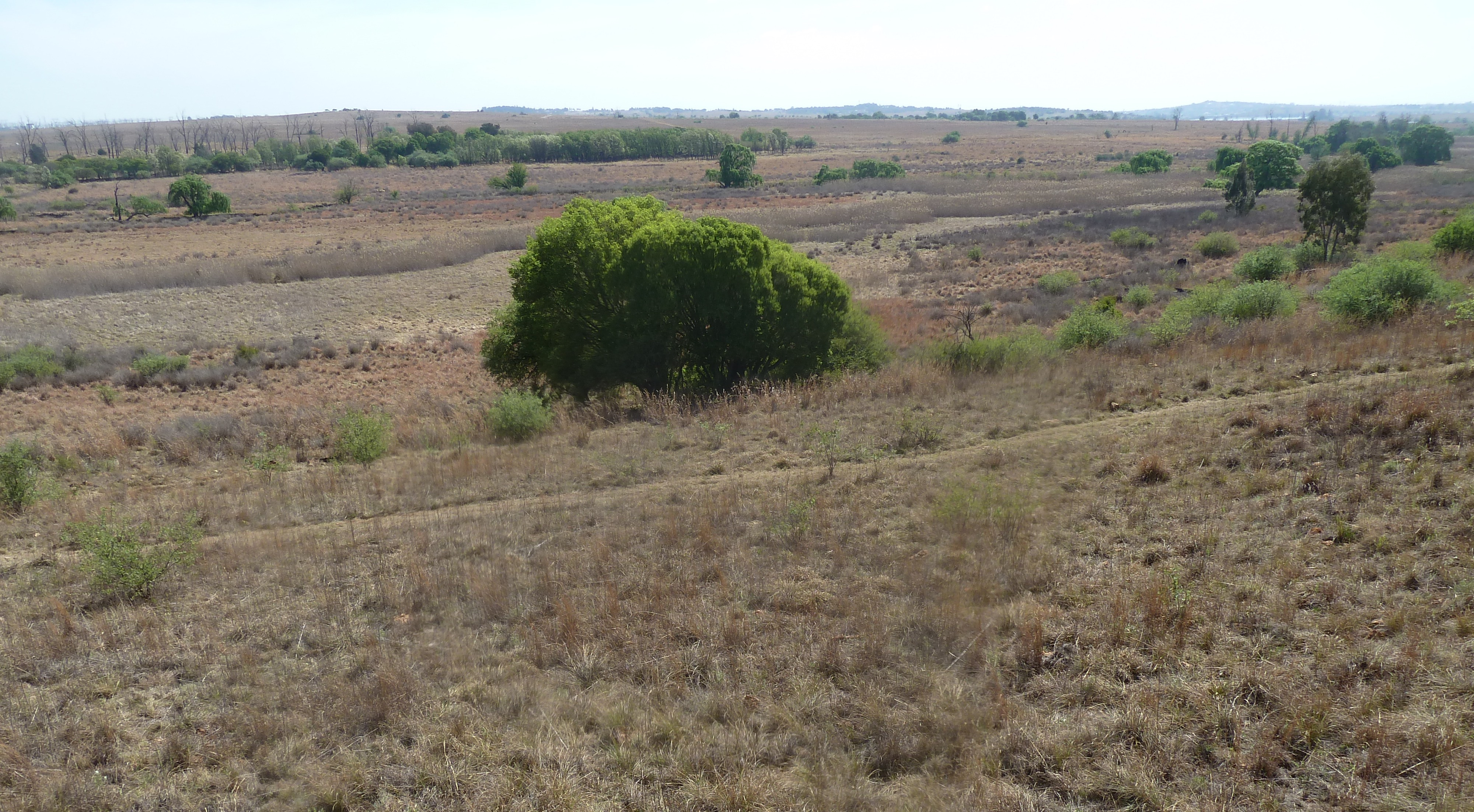 View over Rietvlei Nature Reserve from a lookout point on route 4.